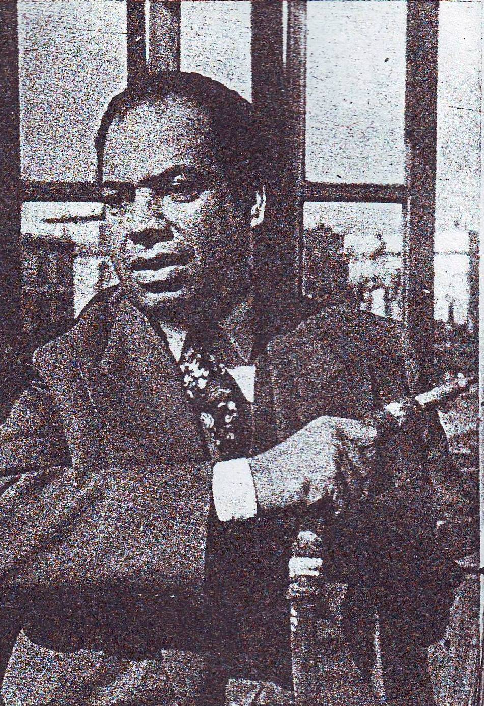 Abo El Seoud El Ebiary